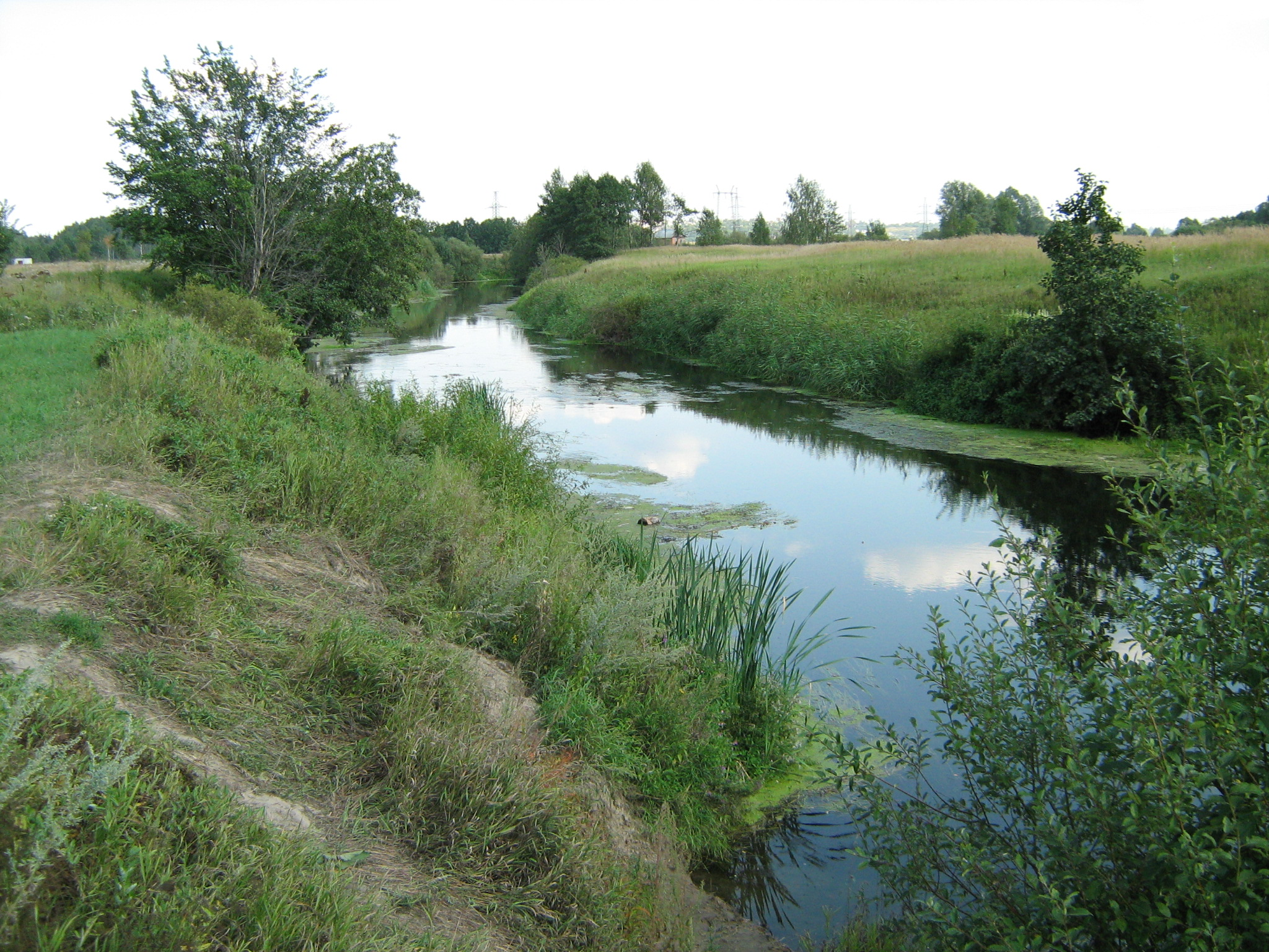 The Kudma River a couple km SW (upstream) of Kstovo.